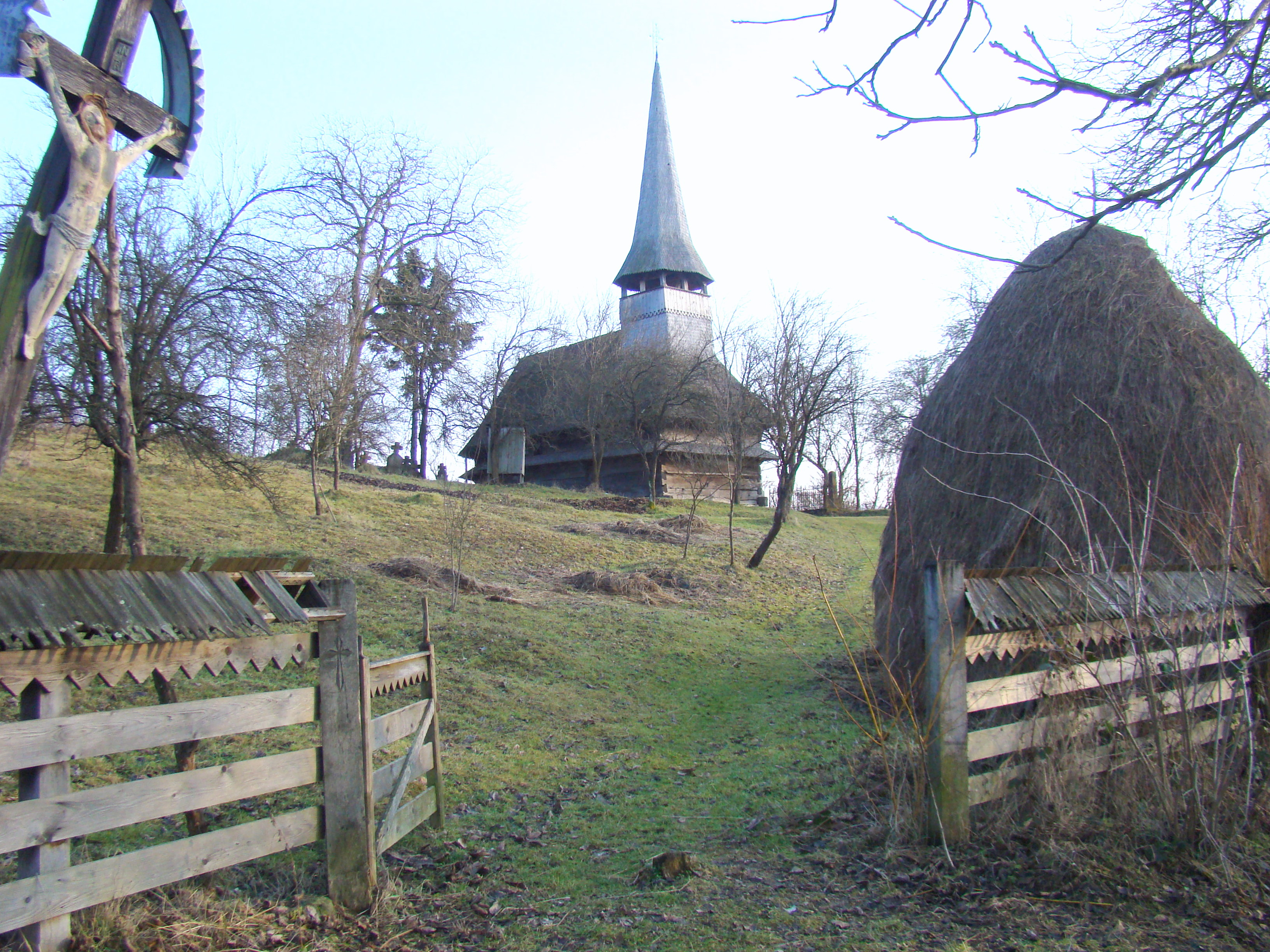 Wooden church in Domnin, Sălaj